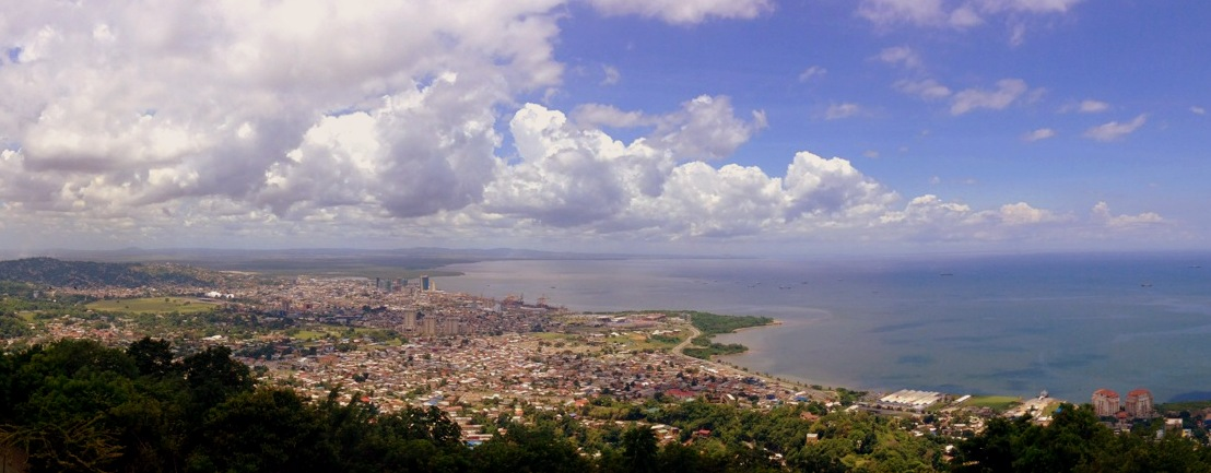 Panoramic view of Port of Spain looking South East towards Gulf of Paria.